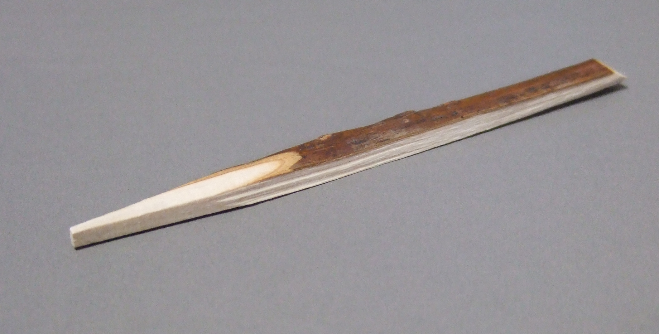 tooth pick